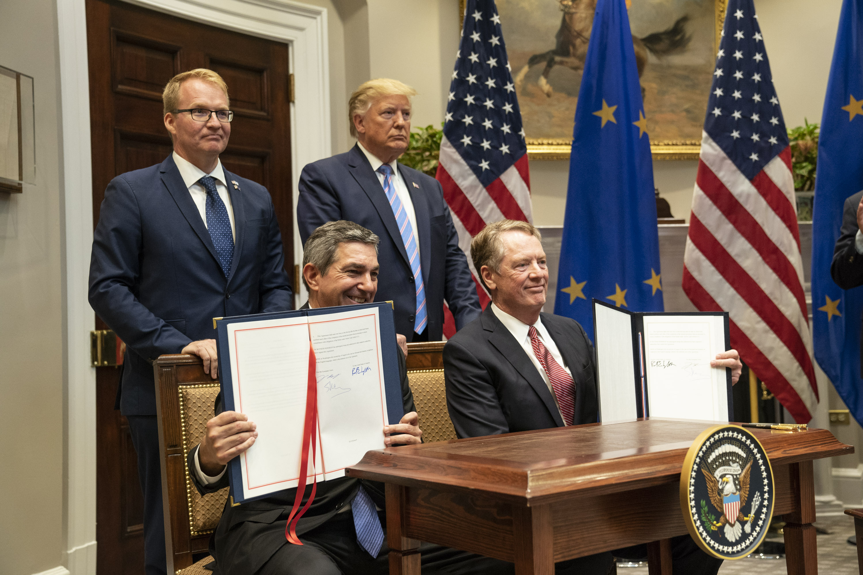 President Donald J. Trump joins European Union Ambassadoir Stavros Lambrinidis; U.S. Trade Representative Ambassador Robert Lighthizer and Jani Raappana of Finland representing the EU Presidency, Friday, Aug. 2, 2019, in the Roosevelt Room of the White House, as agreements are signed between the U.S. and the European Union to increase U.S. beef exports to European markets. (Official White House Photo by Joyce N. Boghosian)